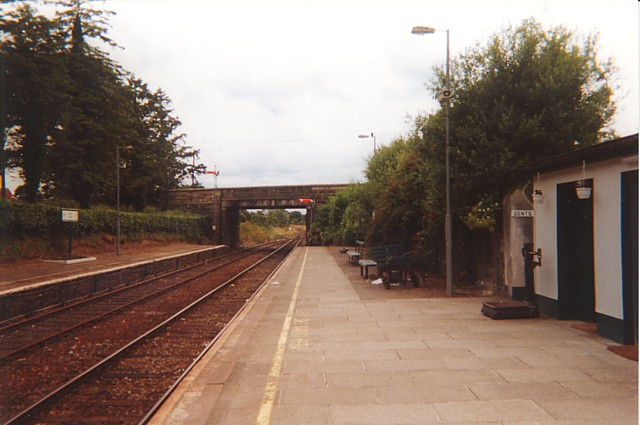 Gorey station, Co Wexford